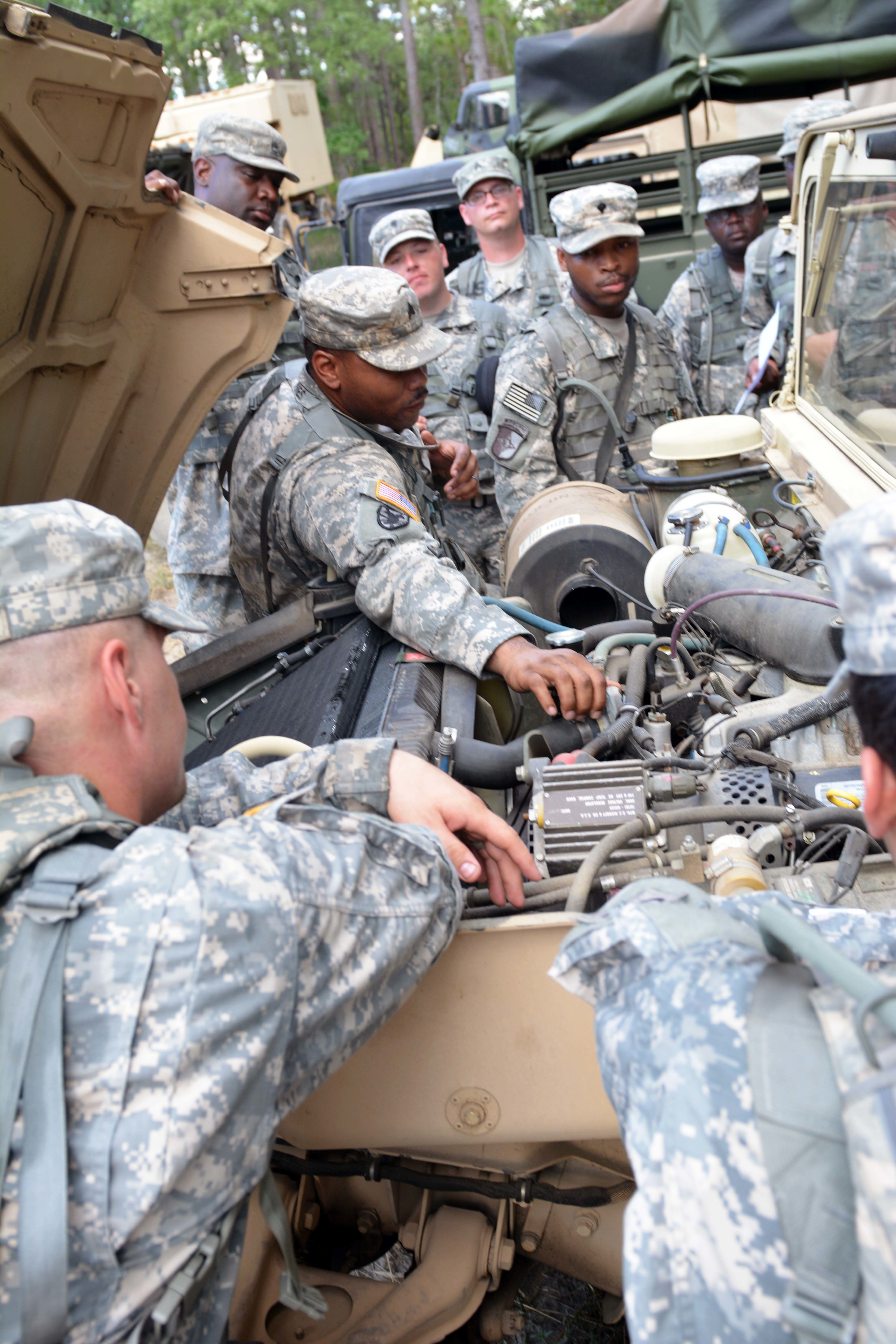 Soldiers with the 18th Human Resources Company, conduct vehicle recovery training during a three-day field training exercise that began June 15, 2015, on Fort Bragg, N.C. During the exercise, the 82nd Airborne Division Sustainment Brigade Soldiers focused on personnel accountability, postal operations, vehicle recovery operations, casualty liaison team operations, tactical squad level lanes and postal rodeo missions.